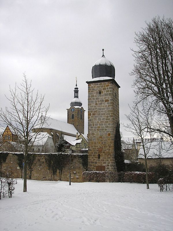 Ebern (Landkreis Haßberge, Lower Franconia, Germany). "Pfarrgarten tower" and Parish church St. Laurentius